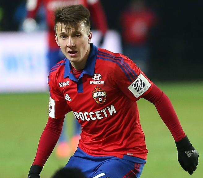 Aleksandr Golovin in action for PFC CSKA Moscow in a game against FC Kuban Krasnodar on 19 March 2016.